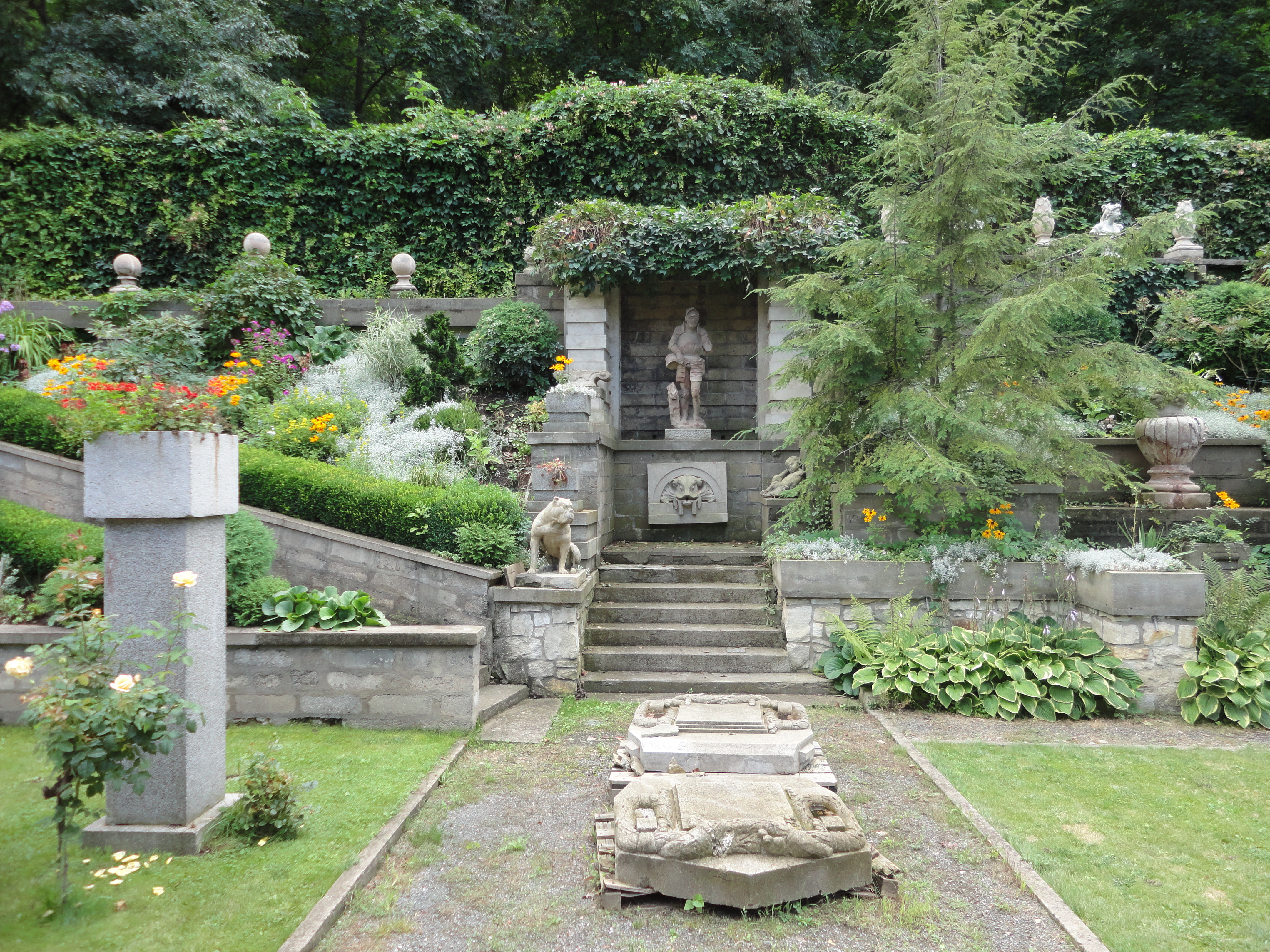 Prague 2, Czech Republic